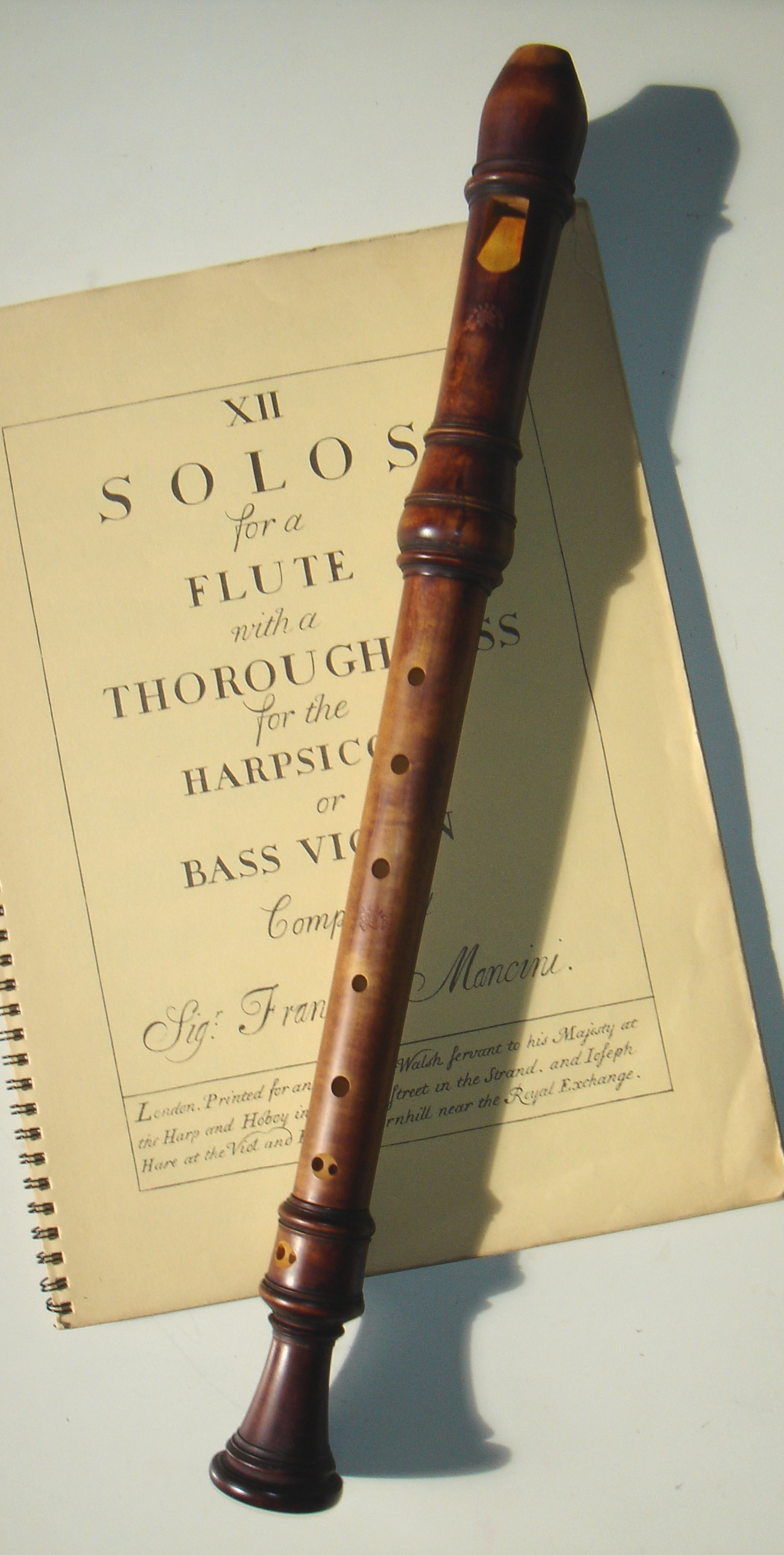 Contralto recorder